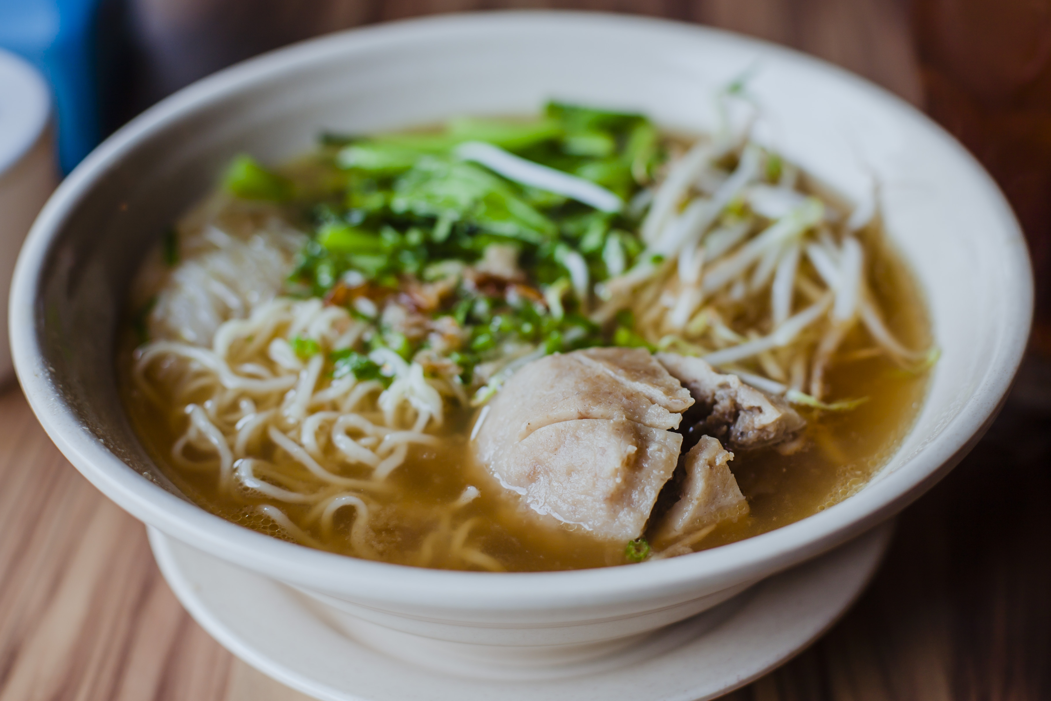 A bowl of Indonesian bakso, with noodle and bean sprouts.